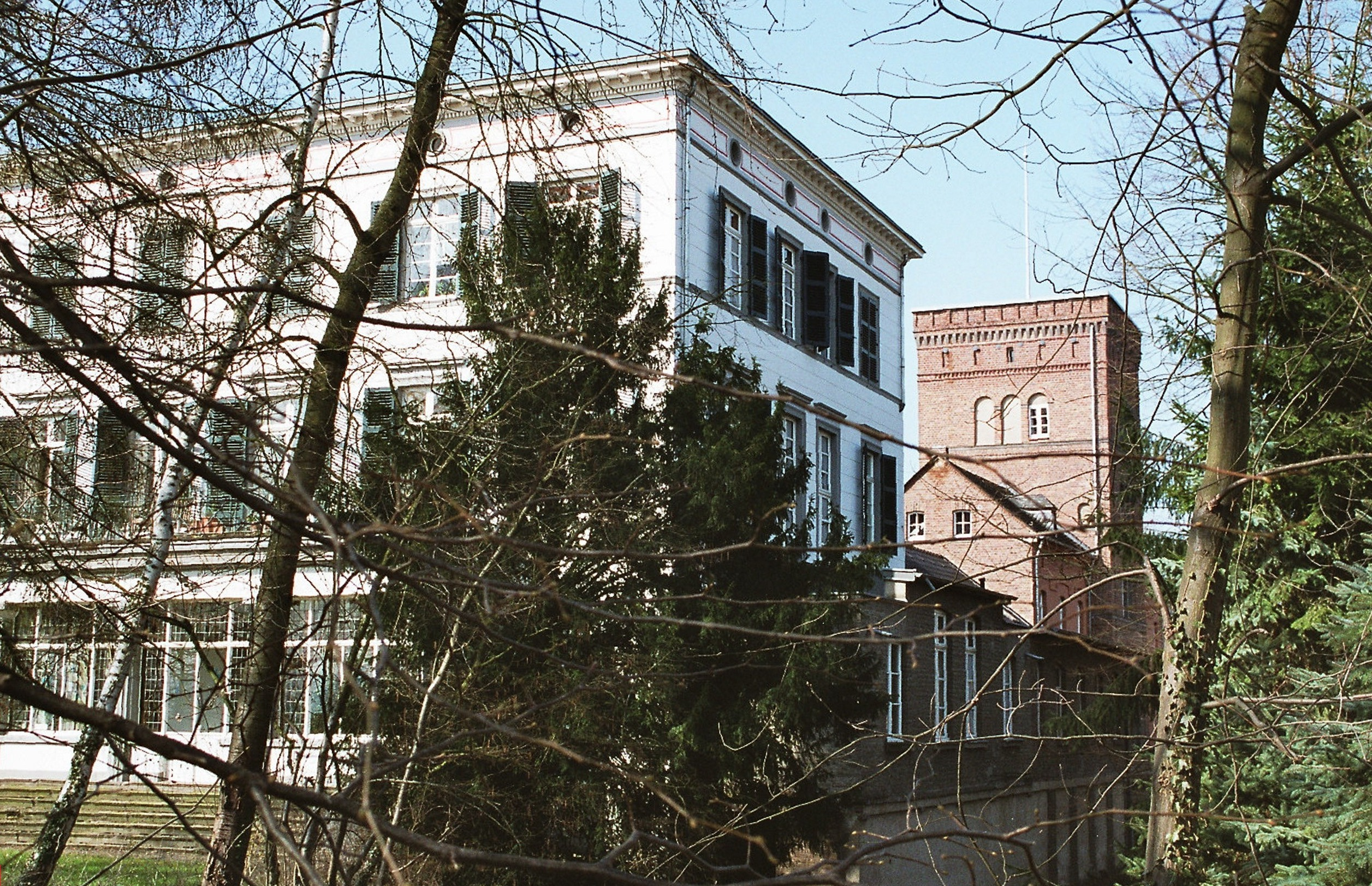 Sechtem (Bornheim), the white castle